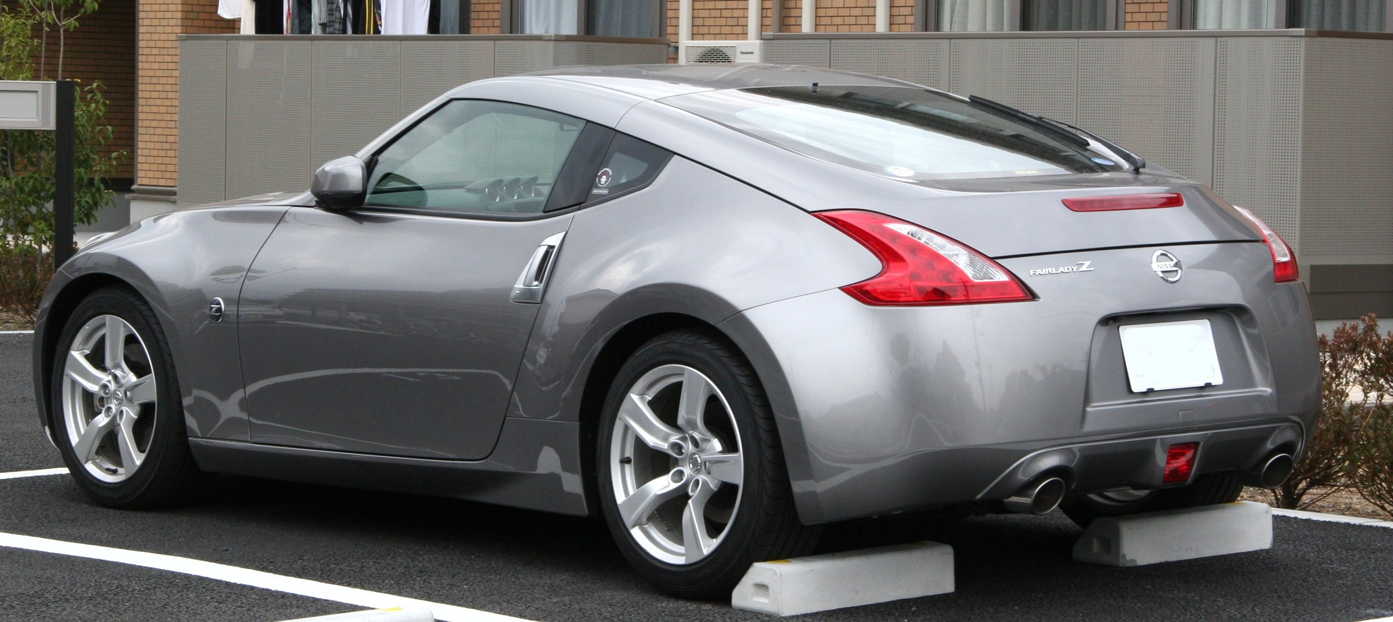 Nissan Fairlady Z